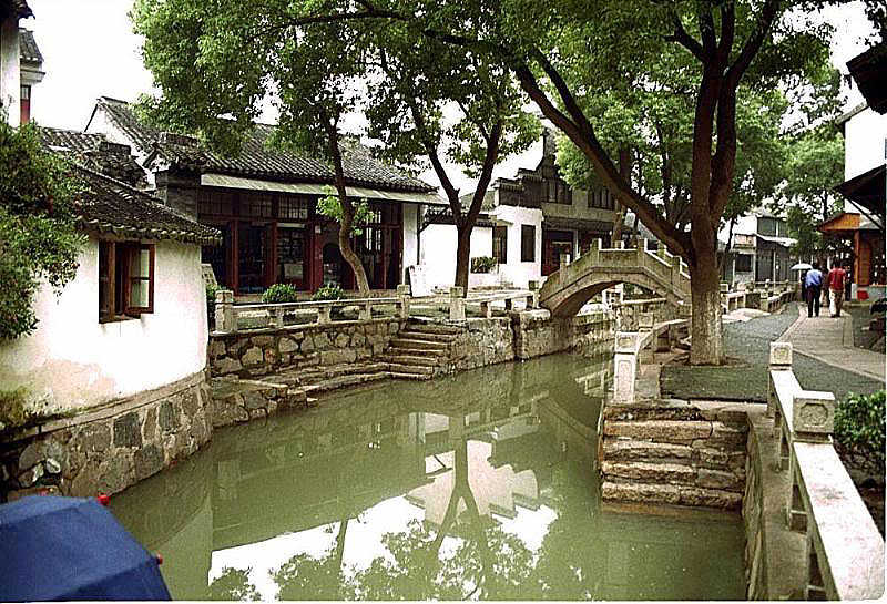 甪直古镇 The Ancient township of Luzhi, Jiangsu province